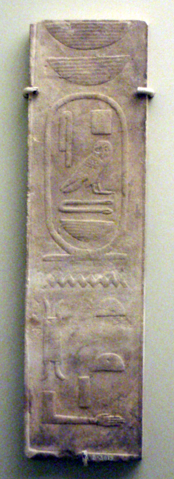 A relief fragment with the name PSAMTIK in hieroglyphs.Psamtik: p-s-m-t(th)-k(k,ka)